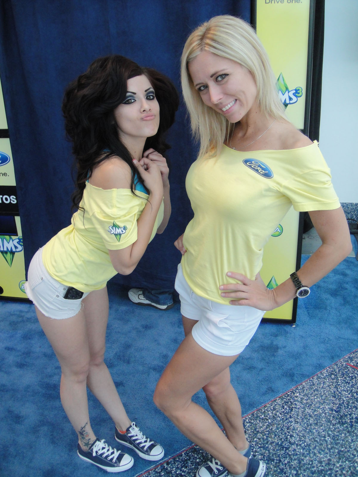 photo 2011 taken by Doug Kline If you're interested in higher resolution versions of my images, contact me via my profile page.